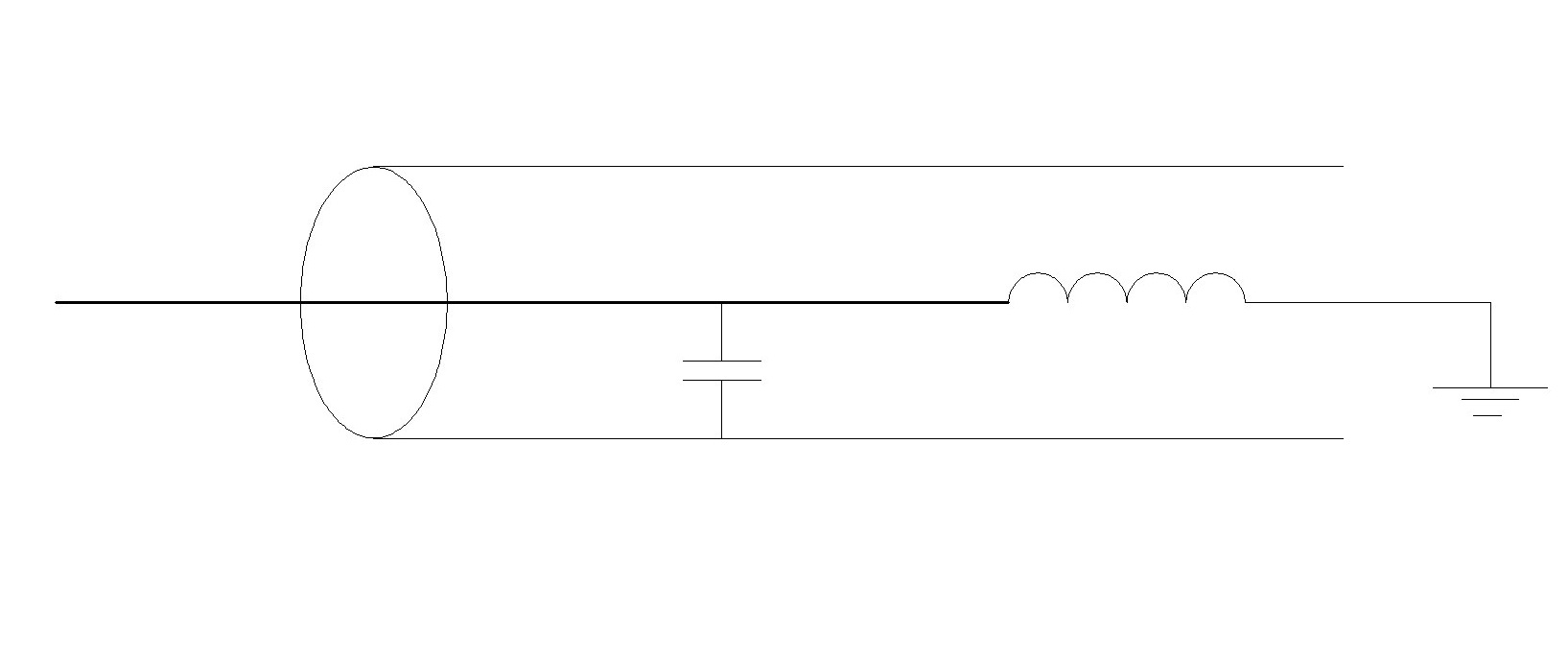 RF probe scheme 2